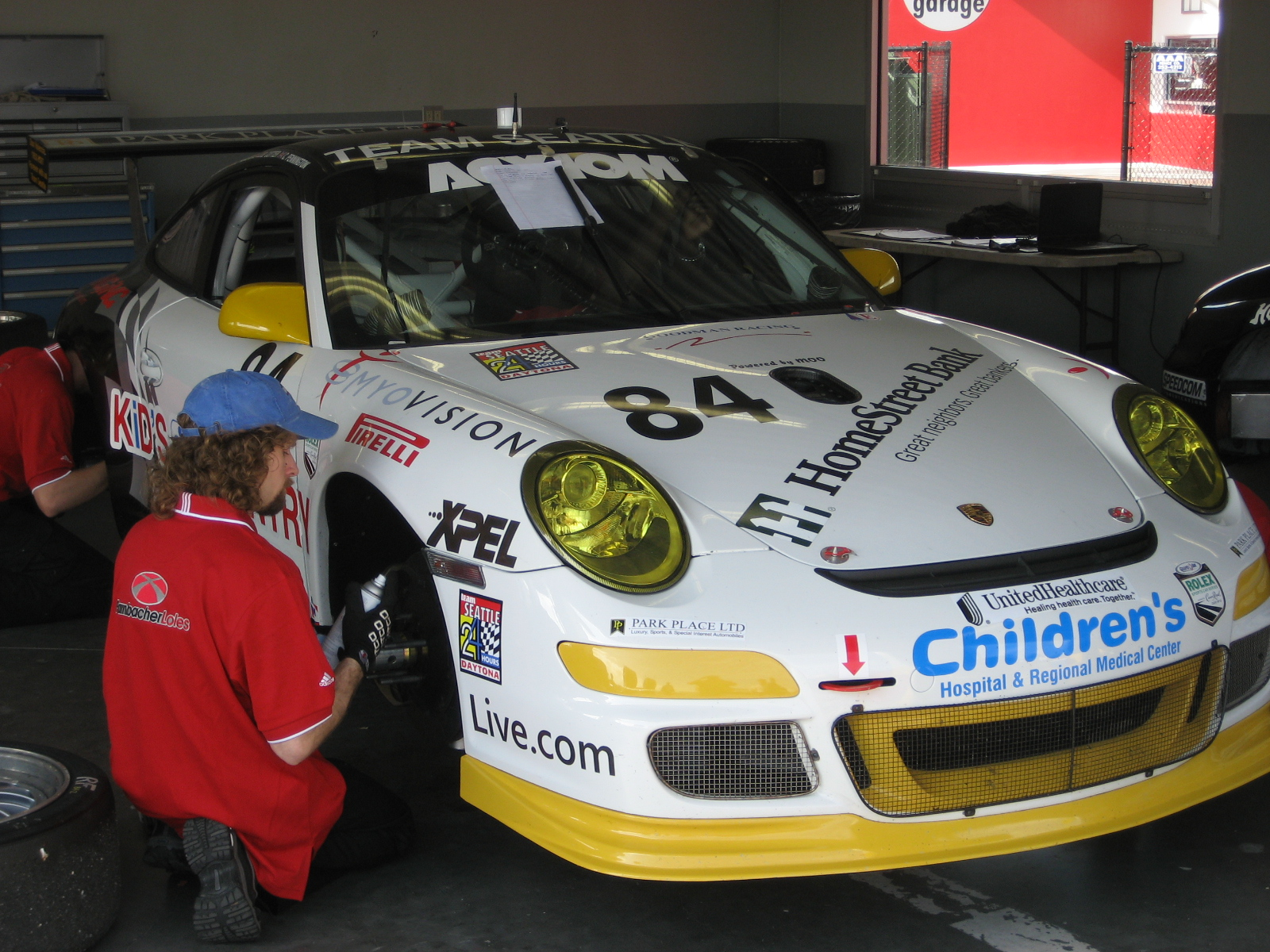 Team Seattle's Porsche 997 GT3 Cup sitting in the garage.